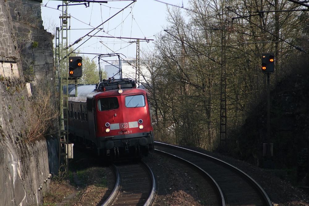 A Deutsche Bahn class 110 (built in 1964) pulls a RegionalExpress train, near Treuchtlingen